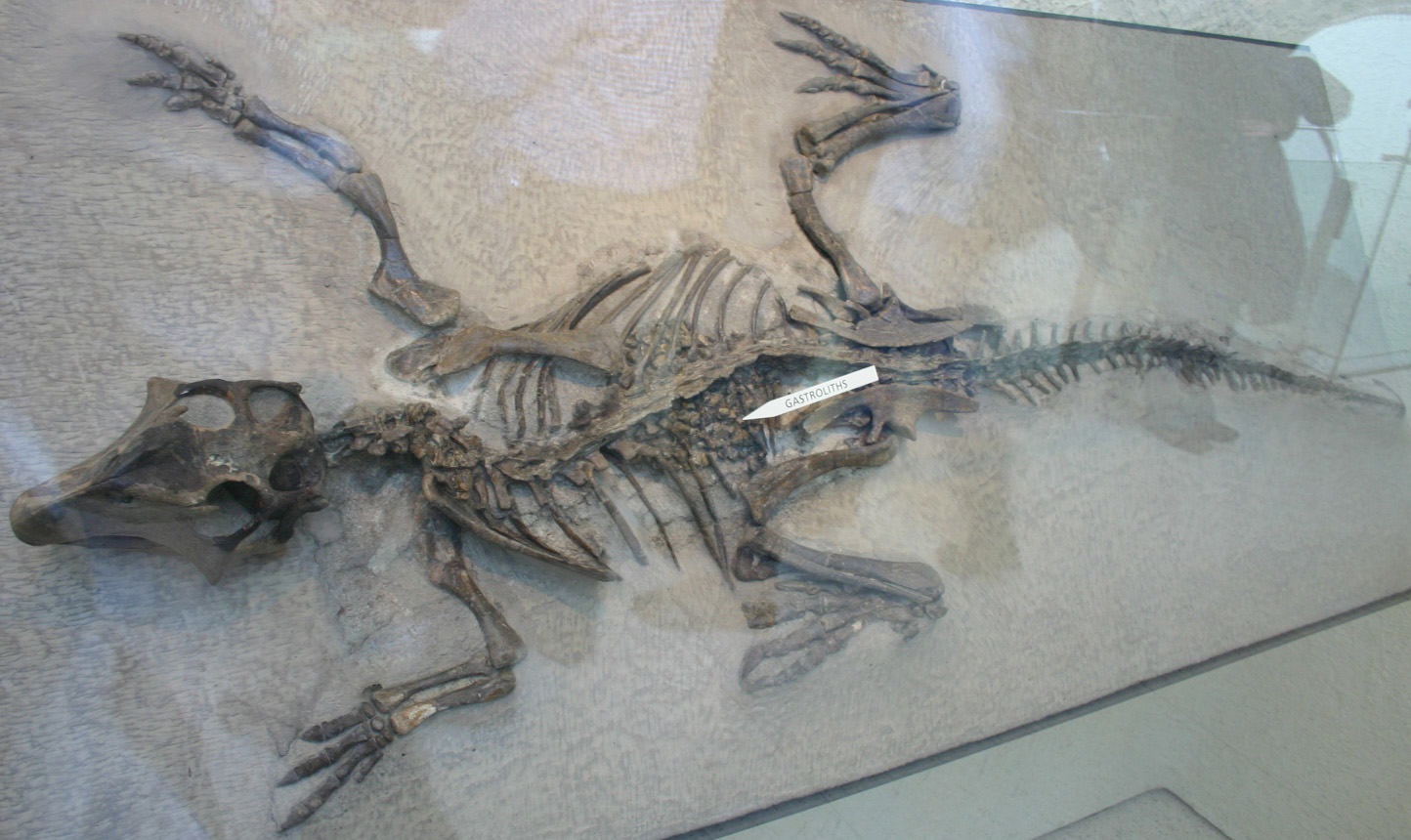 Psittacosaurus mongoliensis specimen AMNH 6254, which was previously referred to as "Protiguanodon" and "Psittacosaurus protiguanodonensis"